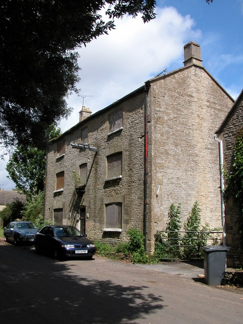 The Unicorn, a boarded up former public house in High Street, Great Rollright, Oxfordshire. There is a plaque of the former Hunt Edmunds Brewery of Banbury, which was taken over and closed down by Bass, Mitchells & Butlers in the 1960s